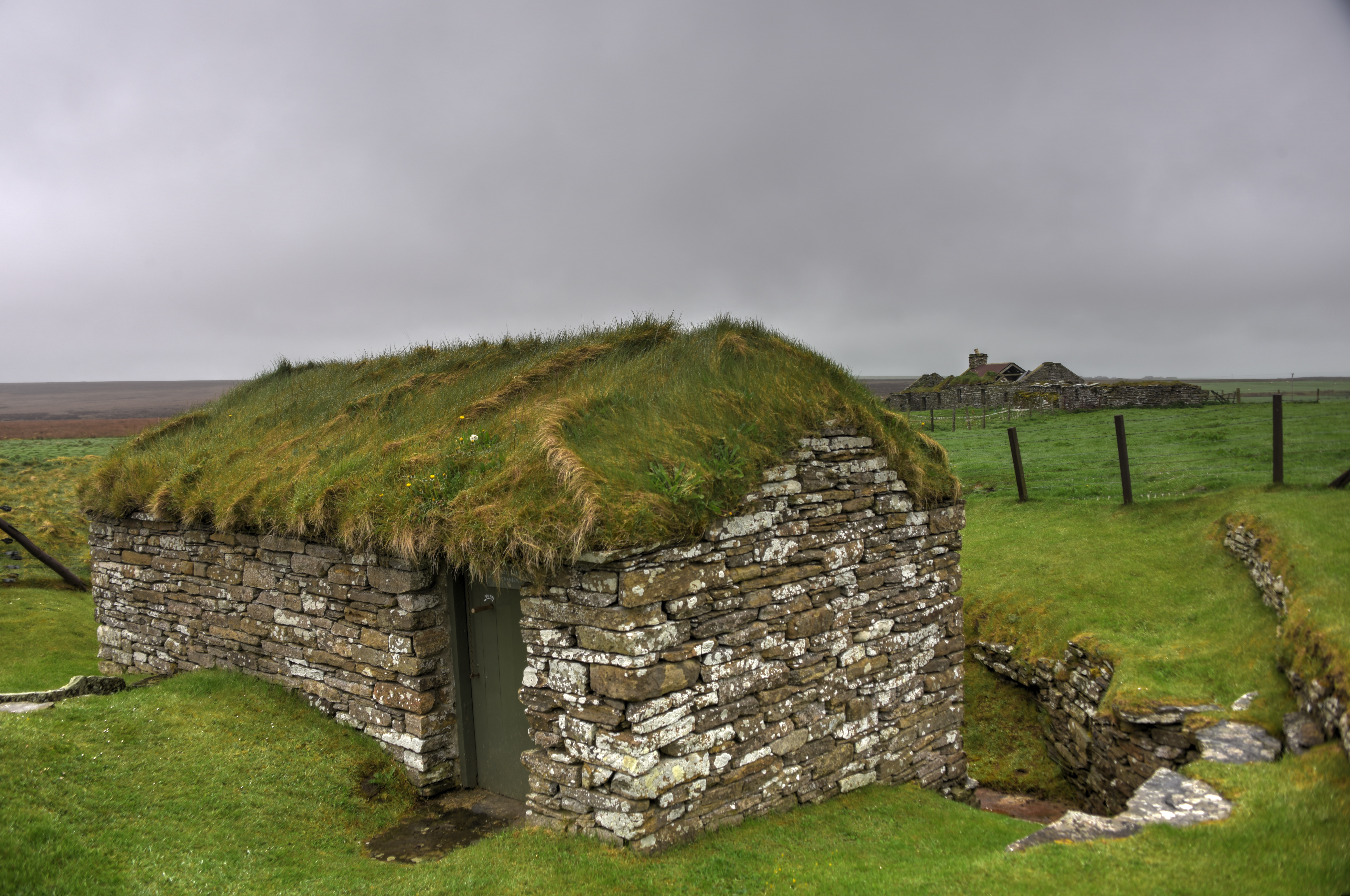 This old water mill in Orkney is unusual in that it has a horizontal water wheel.